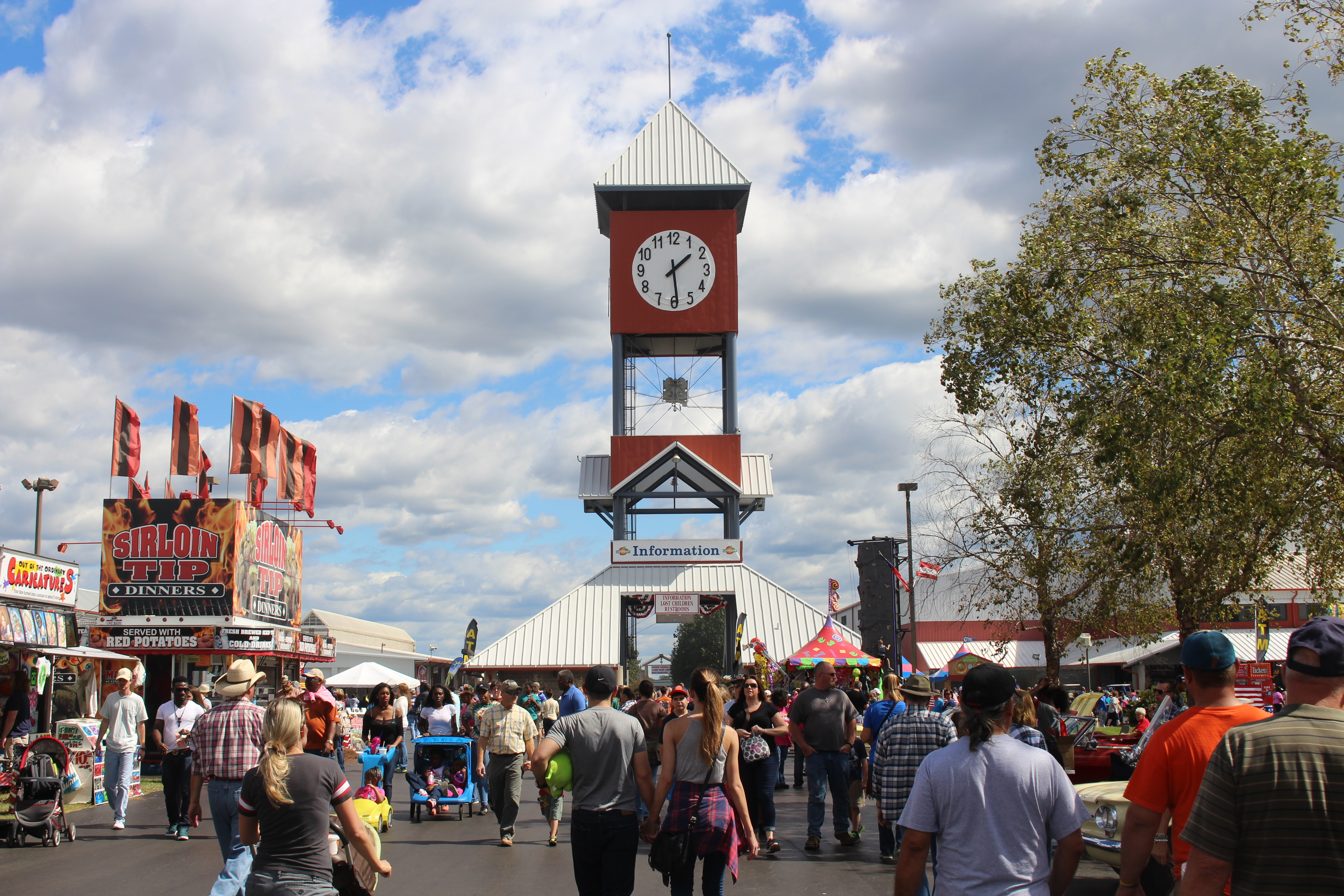 Georgia National Fair 2016, October 8 - Georgia National Fairgrounds & Agricenter, Perry, Houston County, Georgia